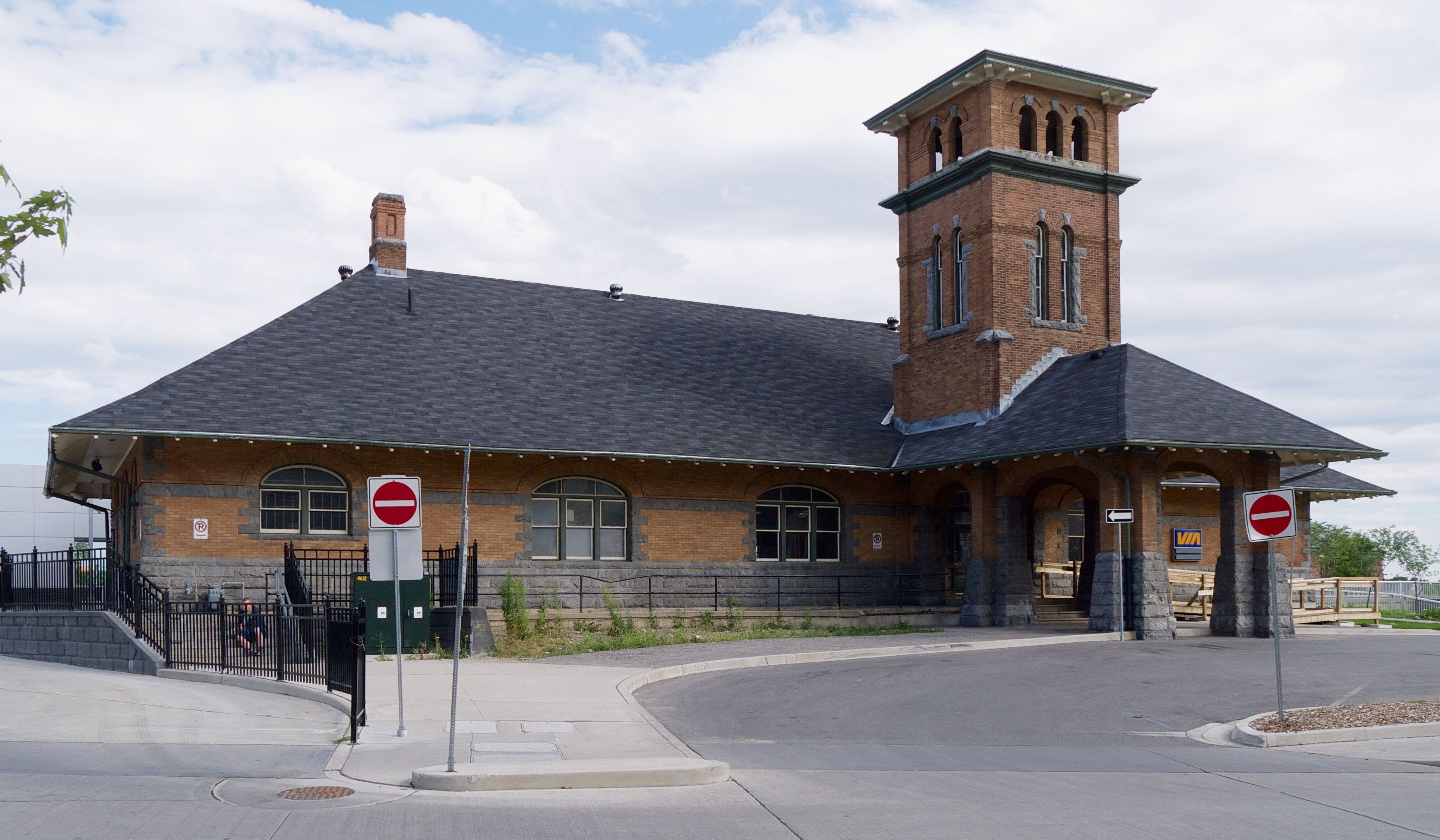 GO and VIA train station in Guelph, Ontario.